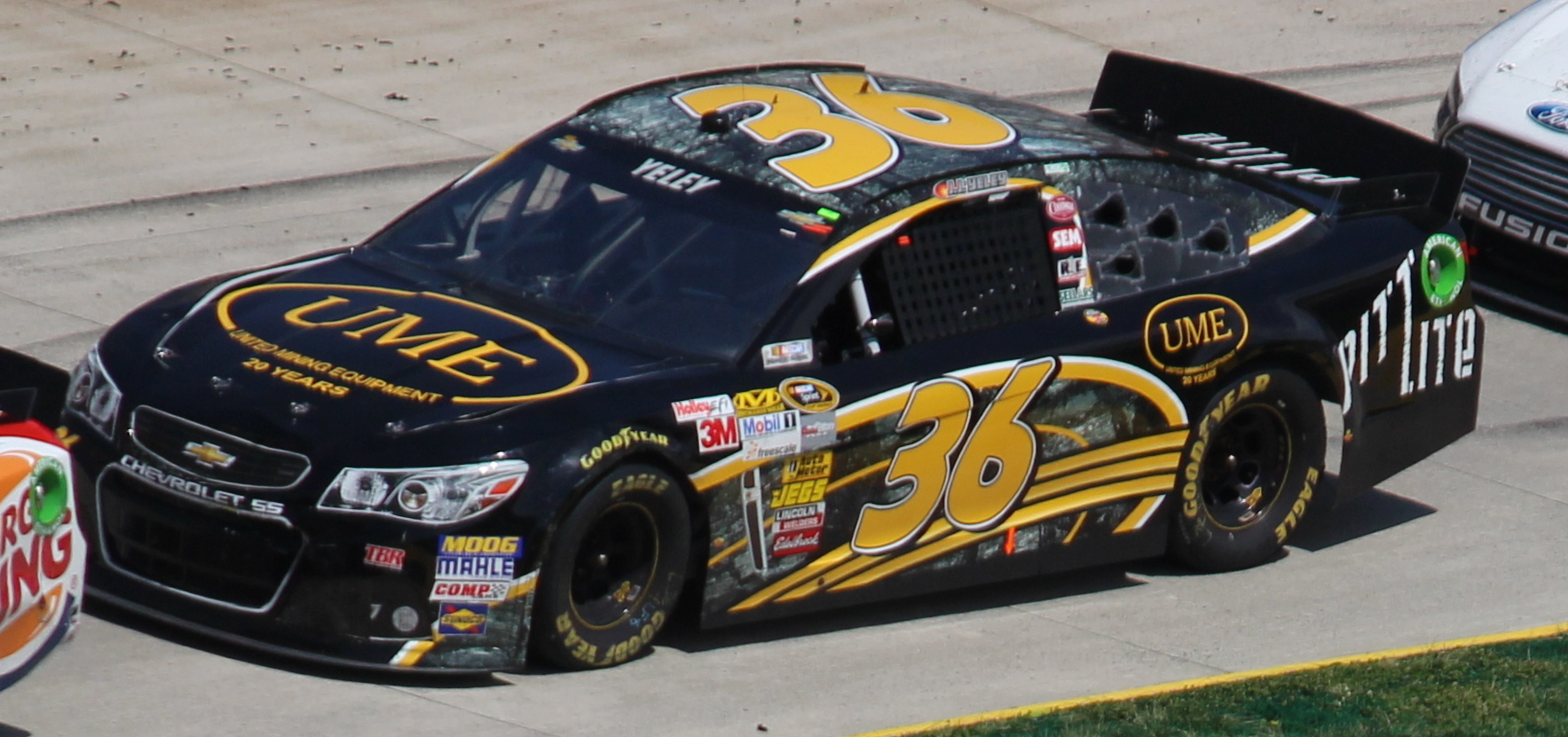 J. J. Yeley competing in the 2013 STP Gas Booster 500.